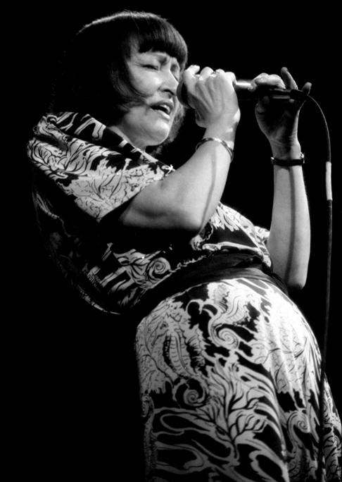 Sheila Jordan performing at Great American Music Hall, San Francisco CA, May 1985. Photo by Brian McMillen /